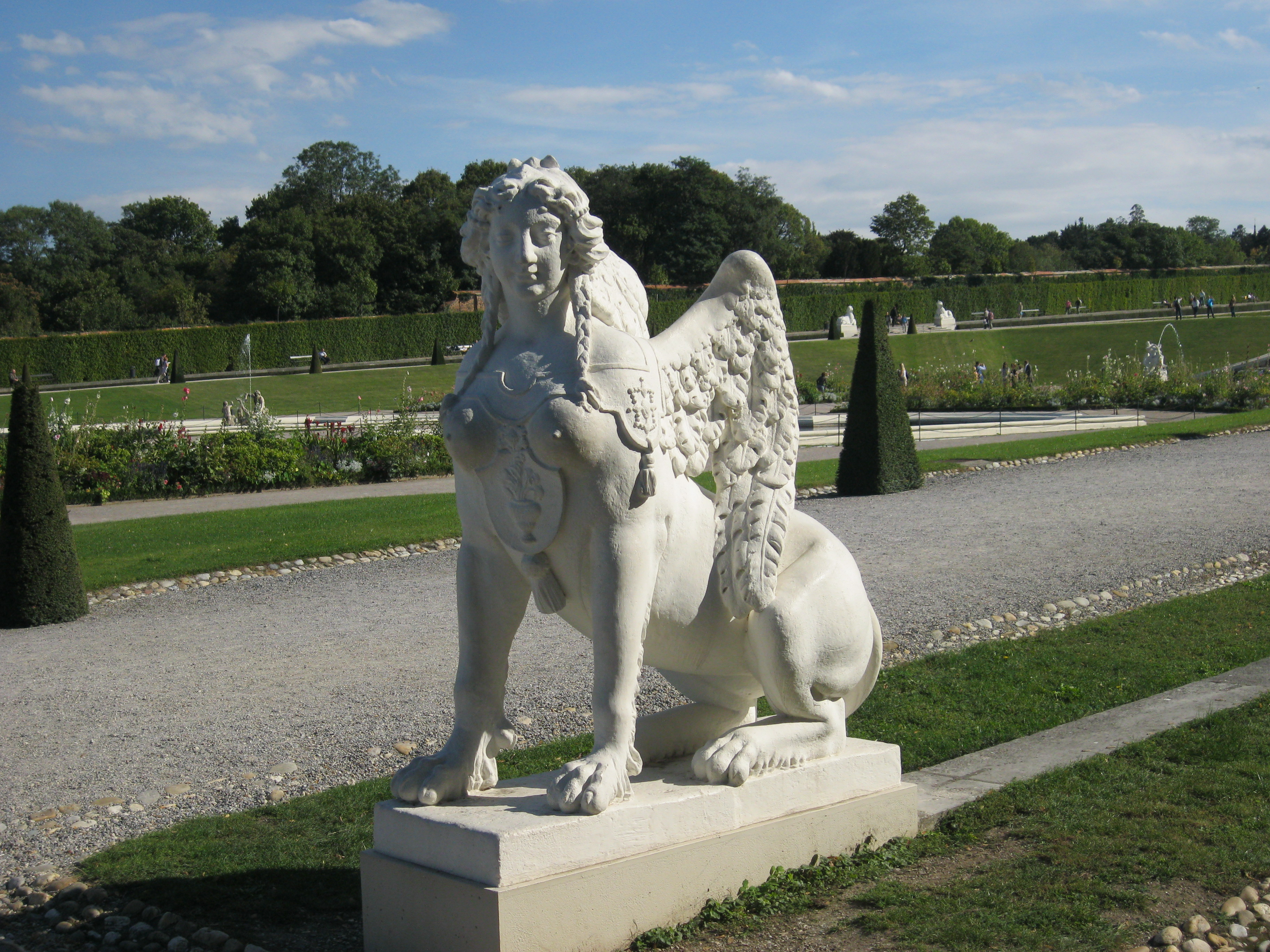 Sphinxes and sculptures in the gardens of Belvedere in Vienna, exterior sight Object location48° 11′ 31.49″ N, 16° 22′ 50.82″ E